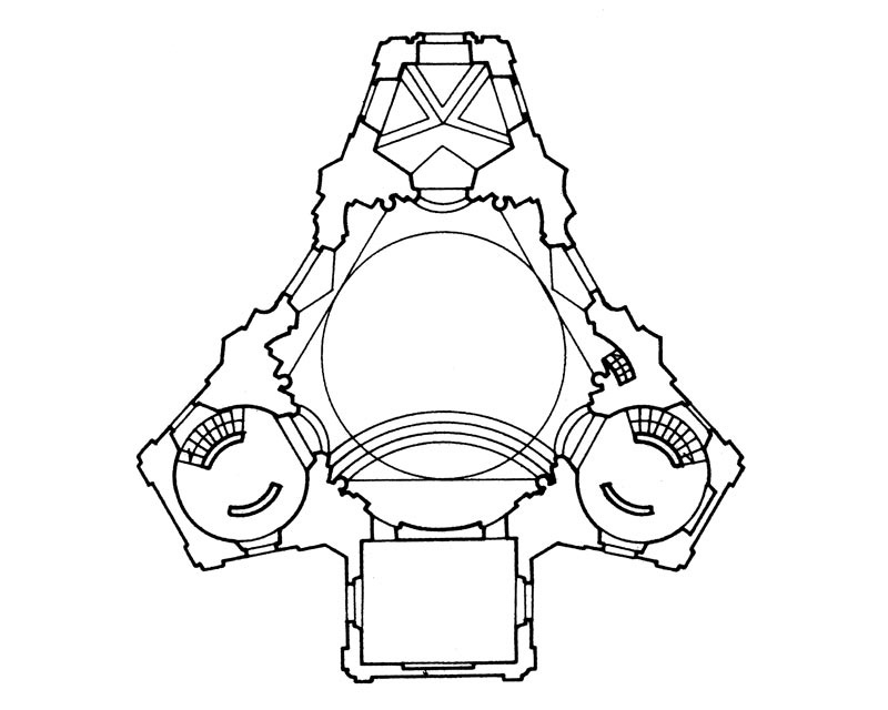 Ground plan of St. Anna Chapel in Panenské Břežany by Jan Santini Aichel